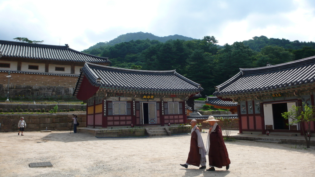 Haeinsa temple, South Korea